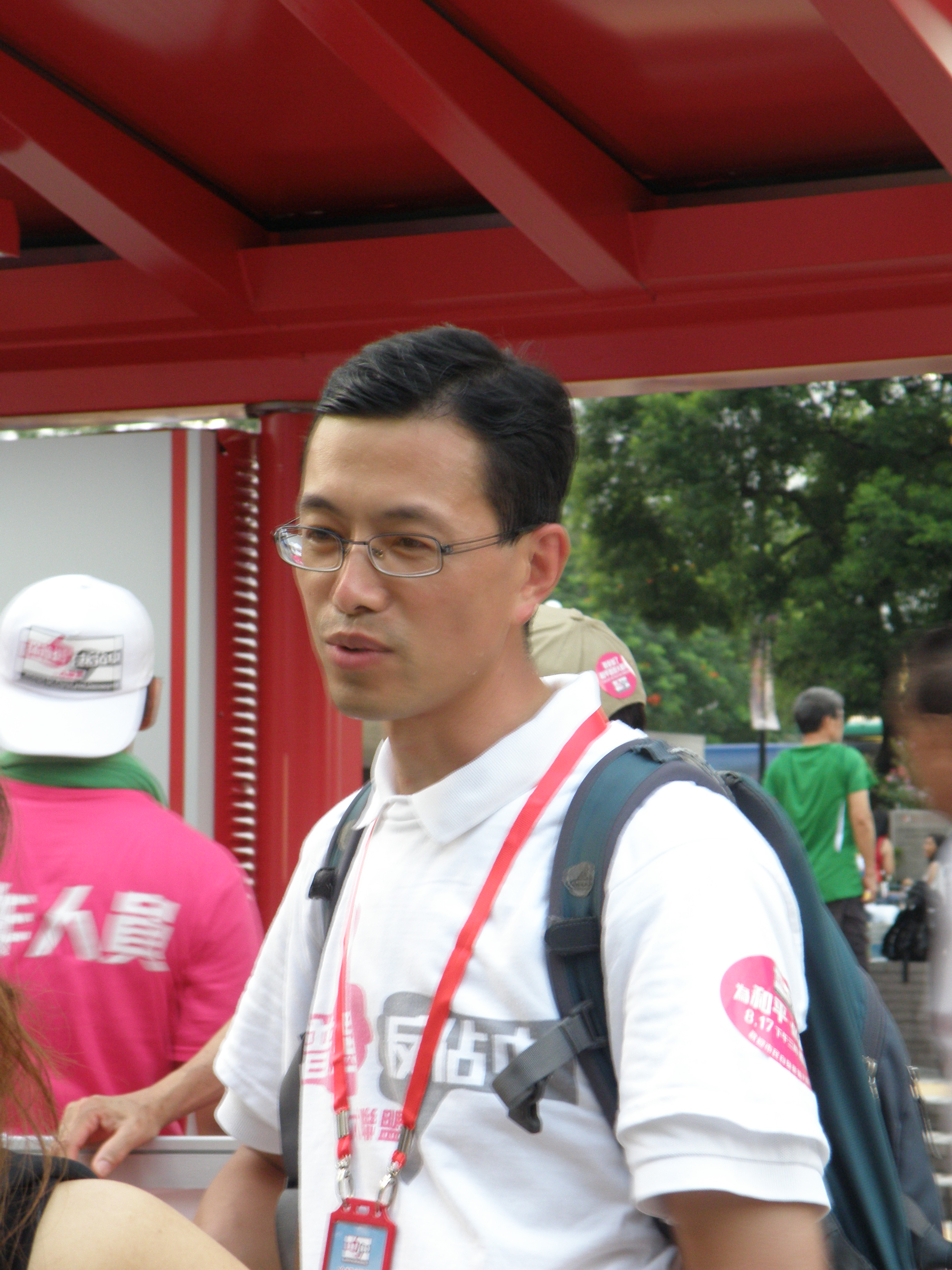 Stanley Ng Chau-pei, the director-general of the Hong Kong Federation of Trade Unions.